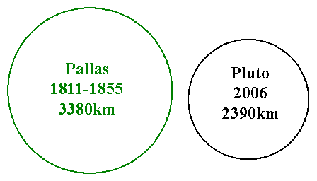 Size of 2 Pallas as estimated by Schröter in 1811.